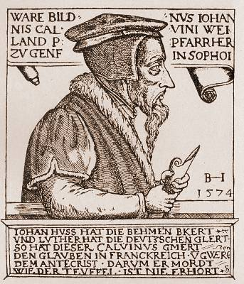 John Calvin 1574